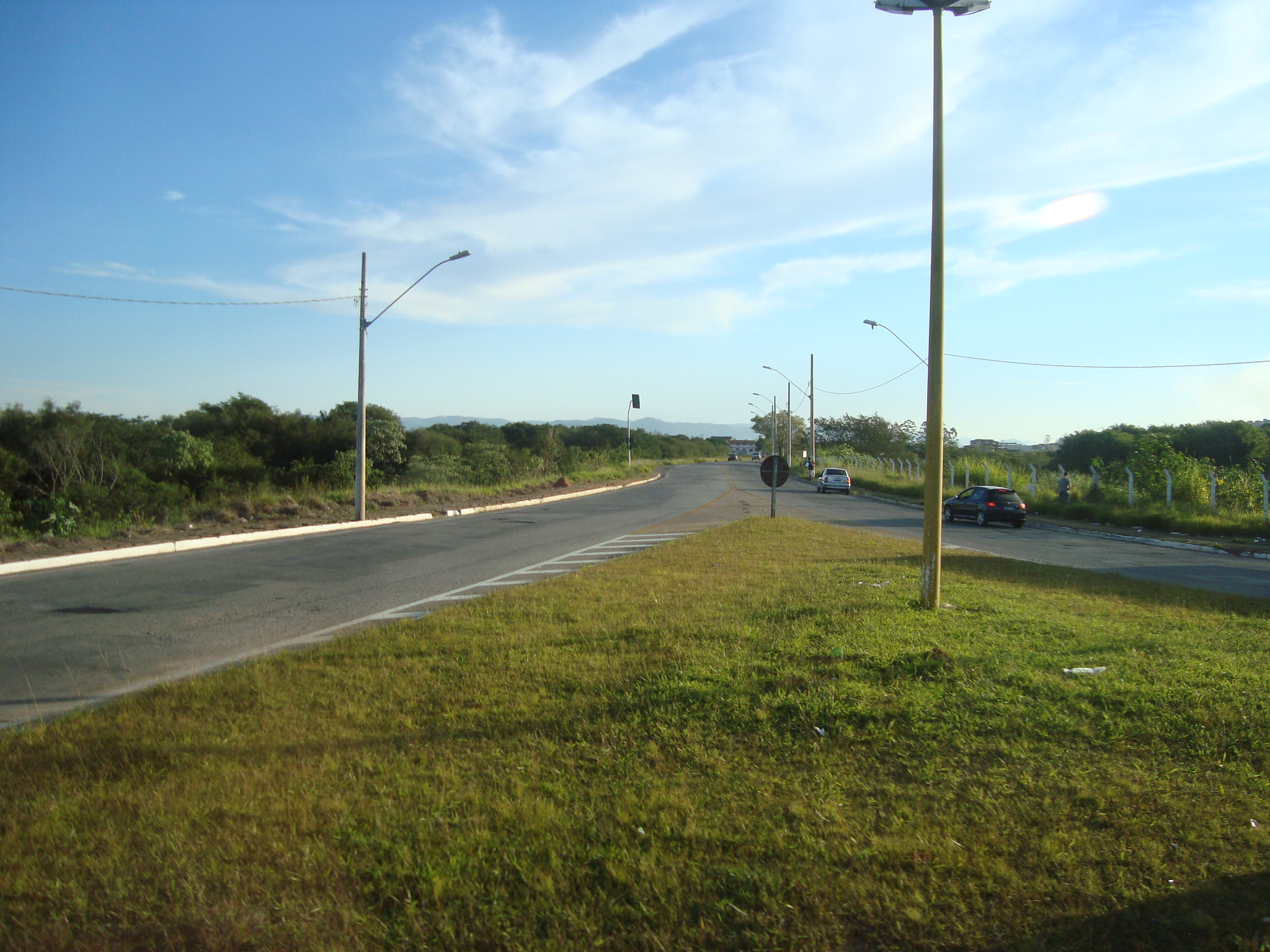 Road MG-290 in Pouso Alegre, Minas Gerais, Brazil